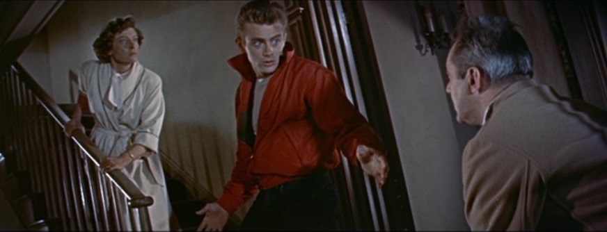 Cropped screenshot of Ann Doran, James Dean and Jim Backus in the trailer for the film Rebel Without a Cause